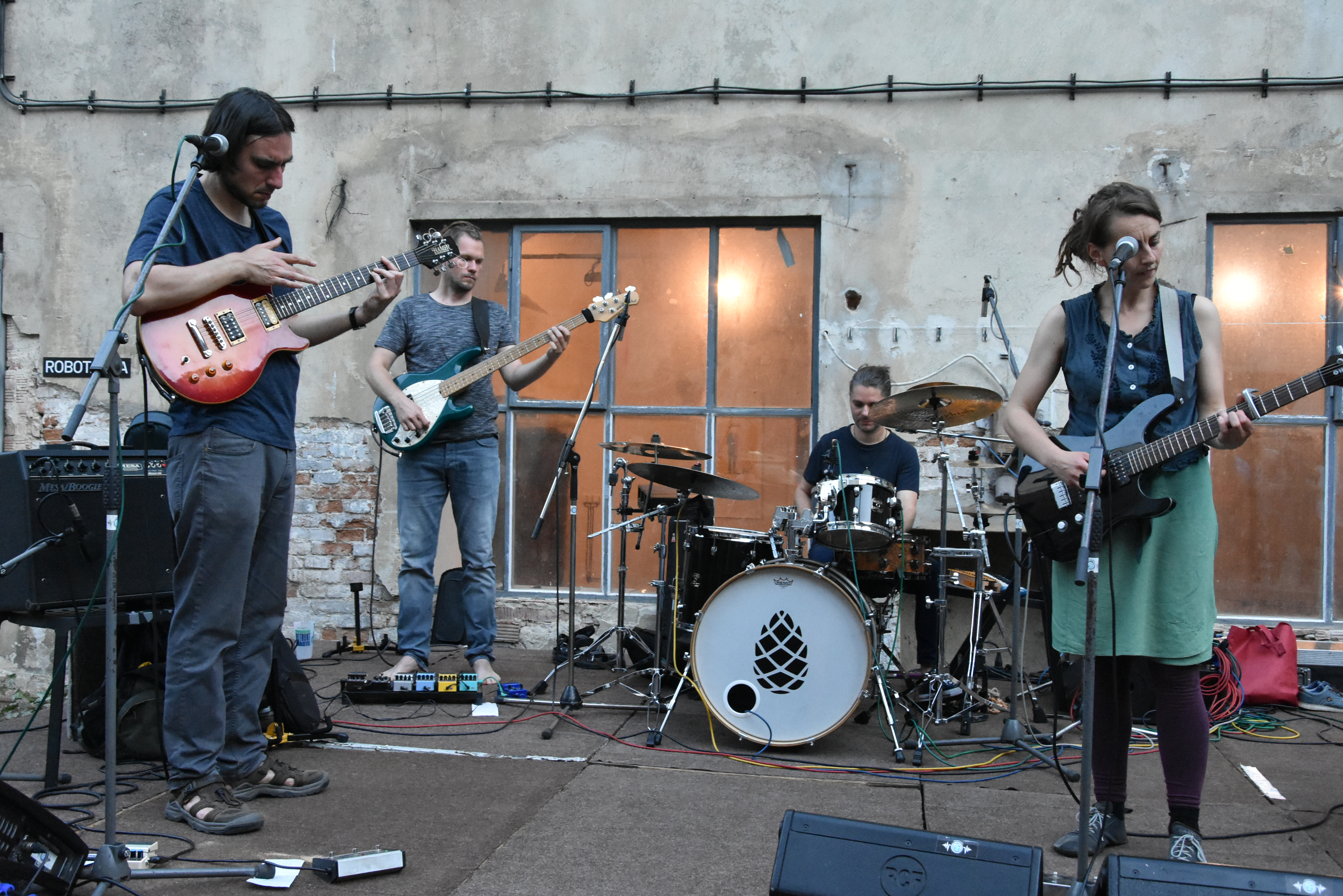 Budoár staré dámy, a band from Brno, Czechia during the Ghettofest festival in Brno.